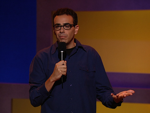 Tony Camin performing standup comedy.